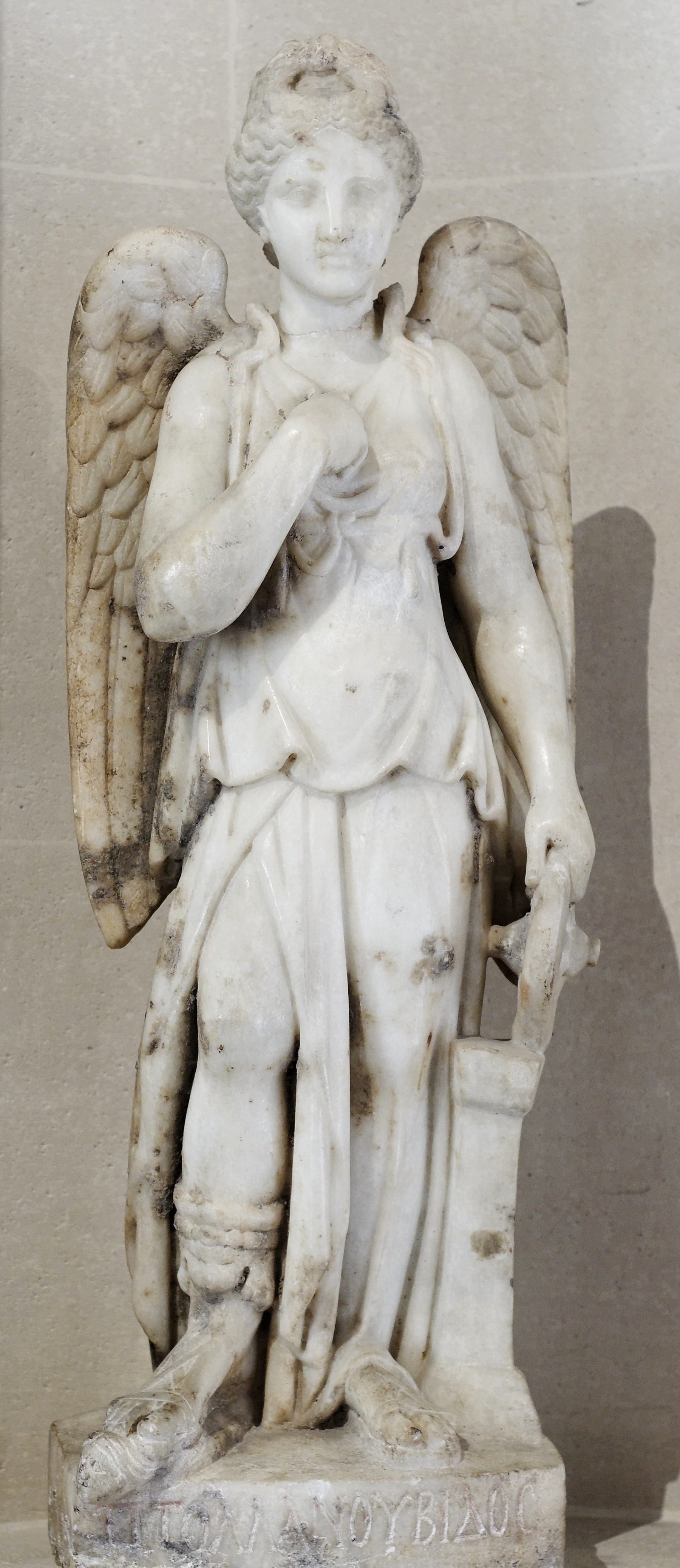 Nemesis, statue dedicated by Ptollanubis. Marble, found in Egypt, 2nd century AD.